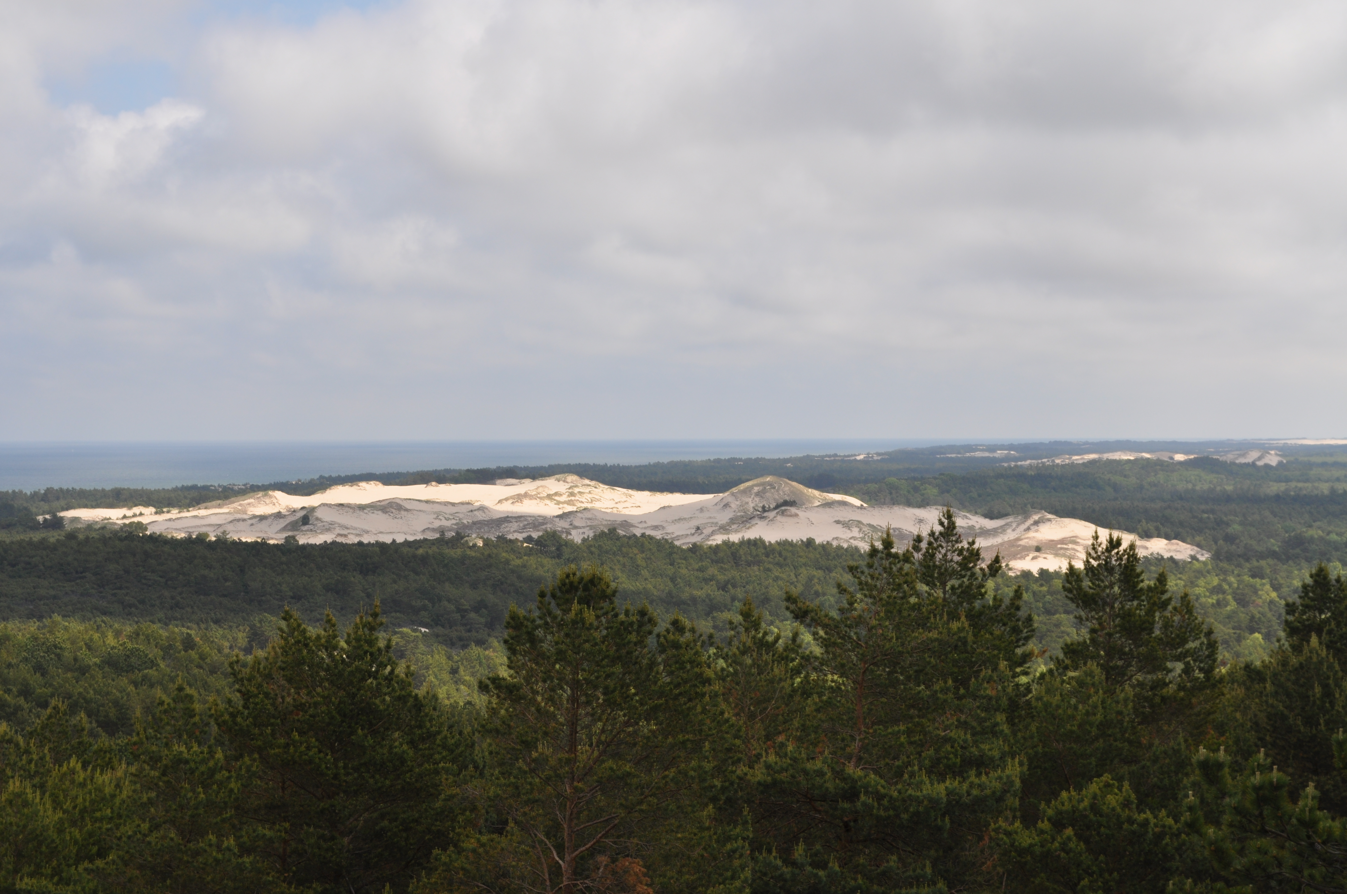 Dunes near Czolpino (Poland)